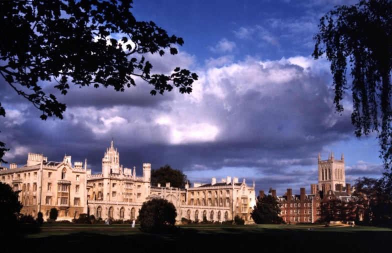 St John's College, Cambridge UK New Court (built in 19th-century) Photo by Harry Tubbs